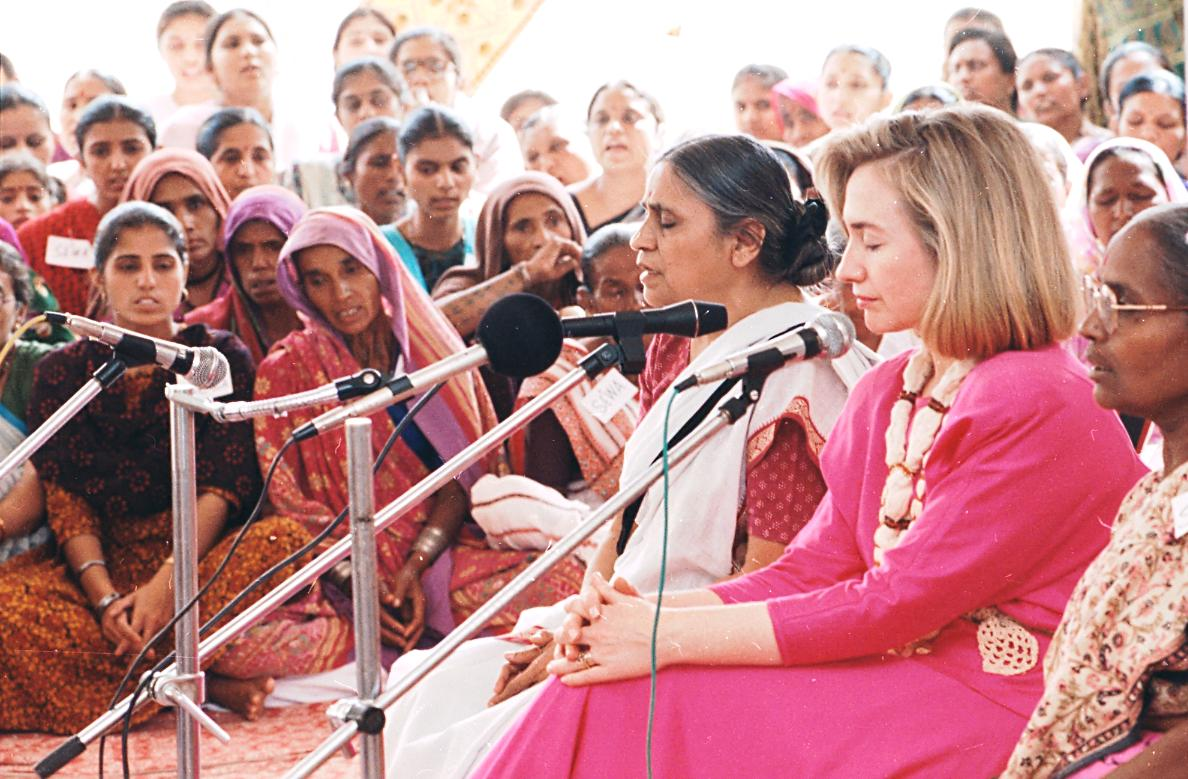 At Self Employed Women's Association - SEWA